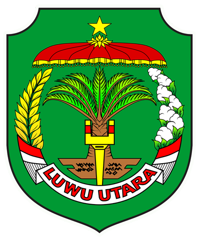 Luwu Utara Logo